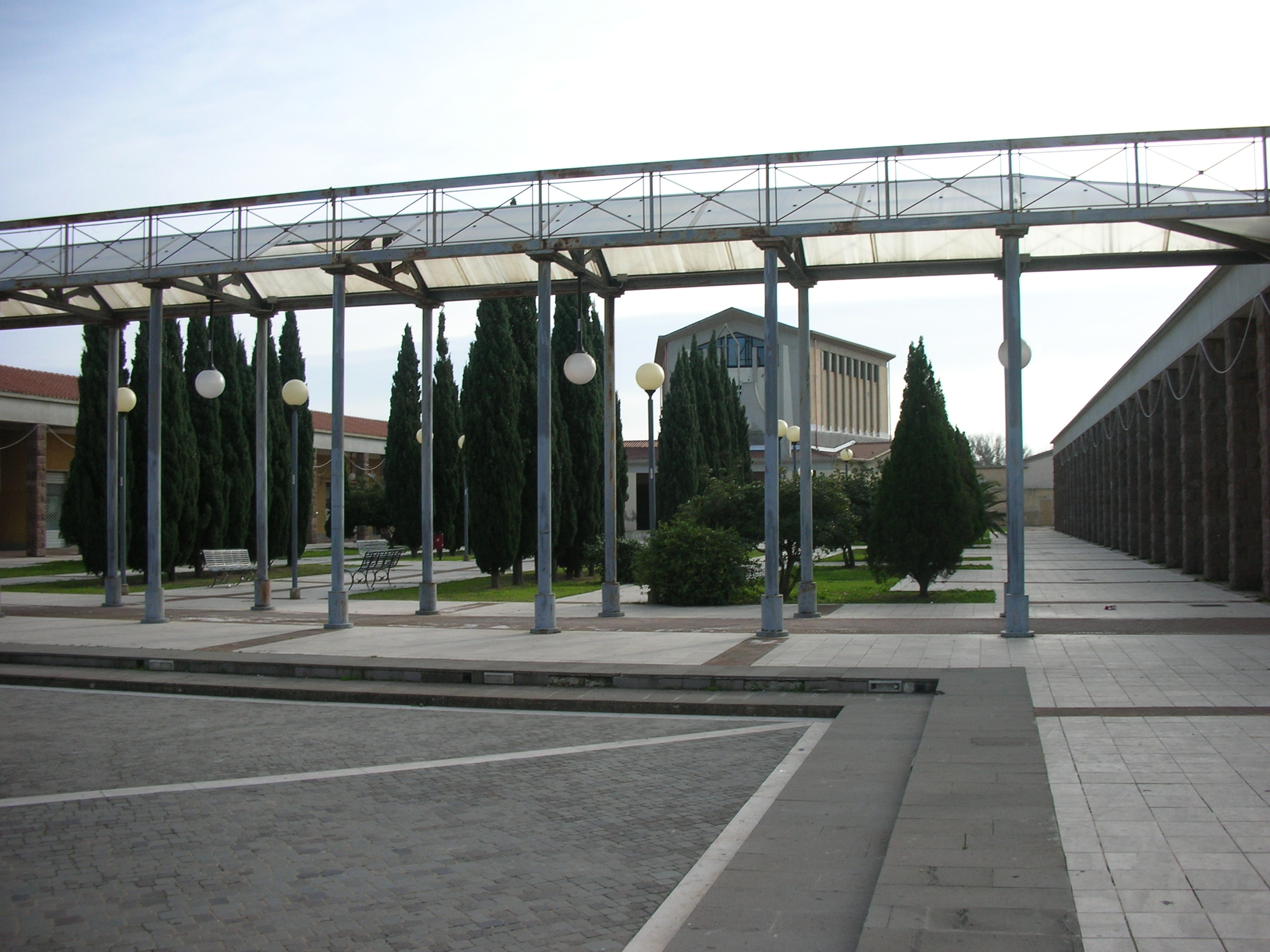 Detail of Piazza Venezia in Cortoghiana, near Carbonia, Sardinia, Italy